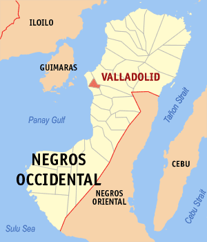 Map of Negros Occidental showing the location of Valladolid